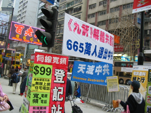 A "Nine Commentaries on the CCP" banner by Epochtimes.